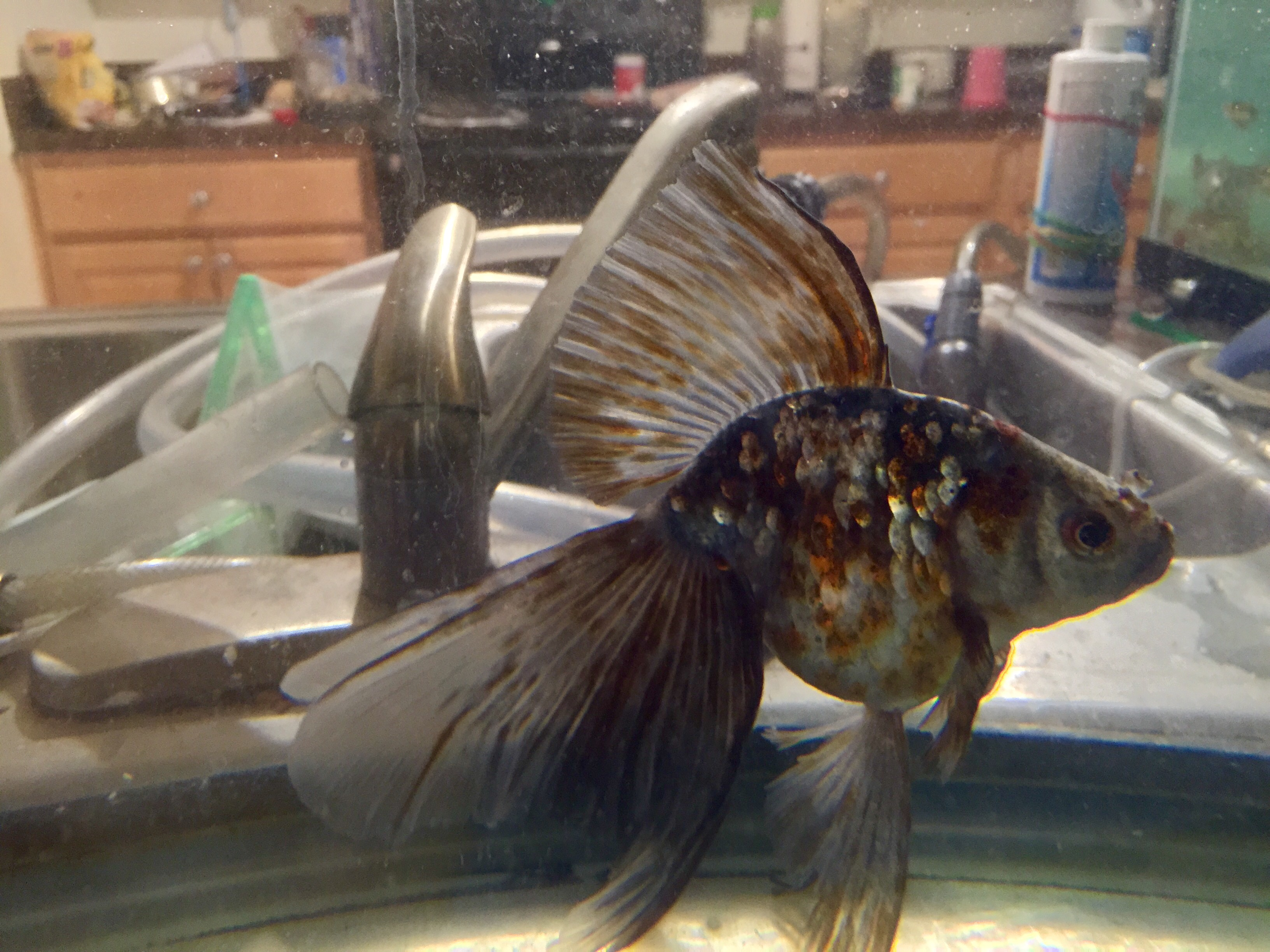 Kirin Chinese Veiltail Goldfish